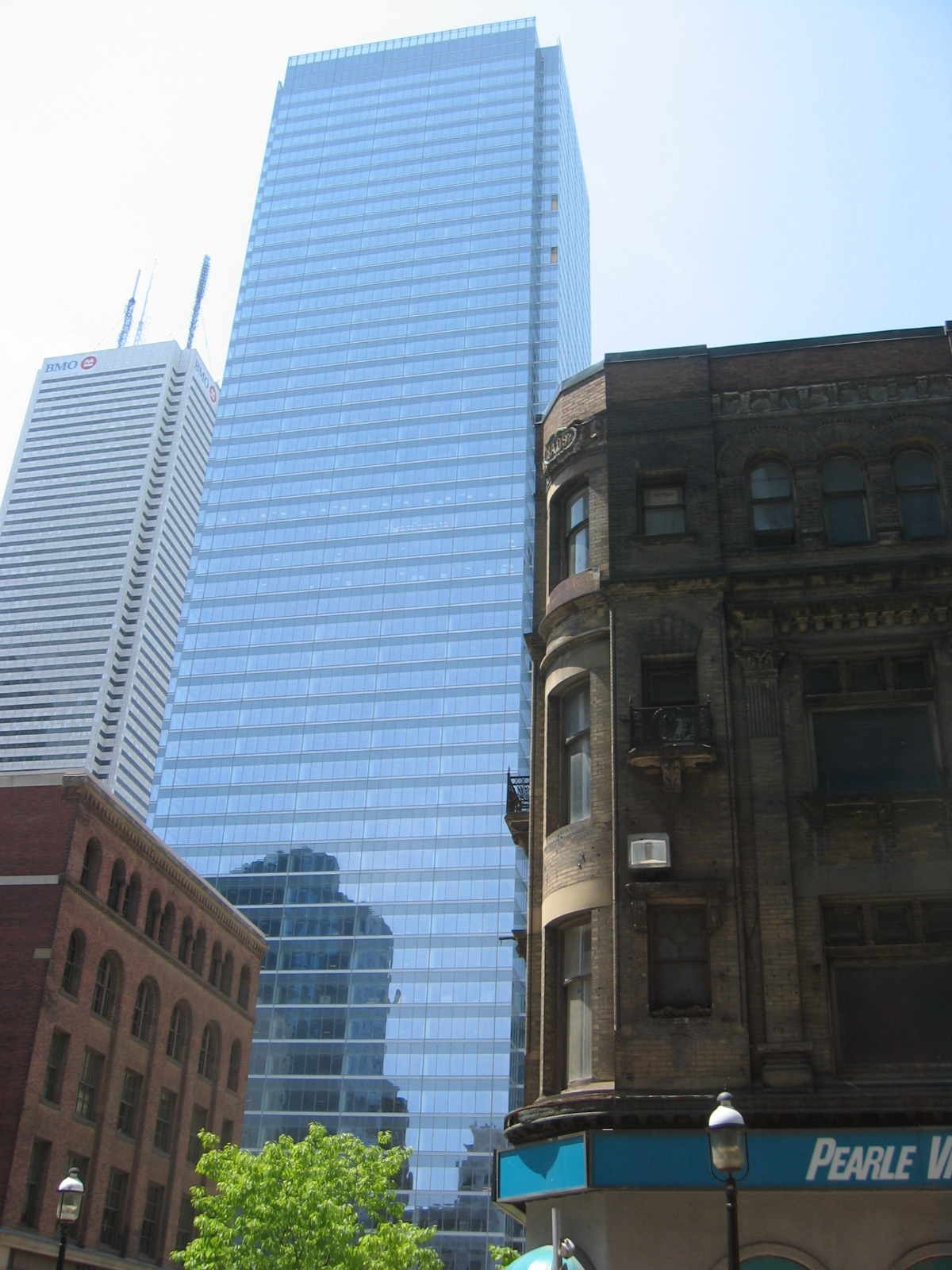 Bay Adelaide West in June 2009, with First Canadian Place in the background, and the Dineen Building (pre-restoration) in the foreground. Toronto, Ontario, Canada.